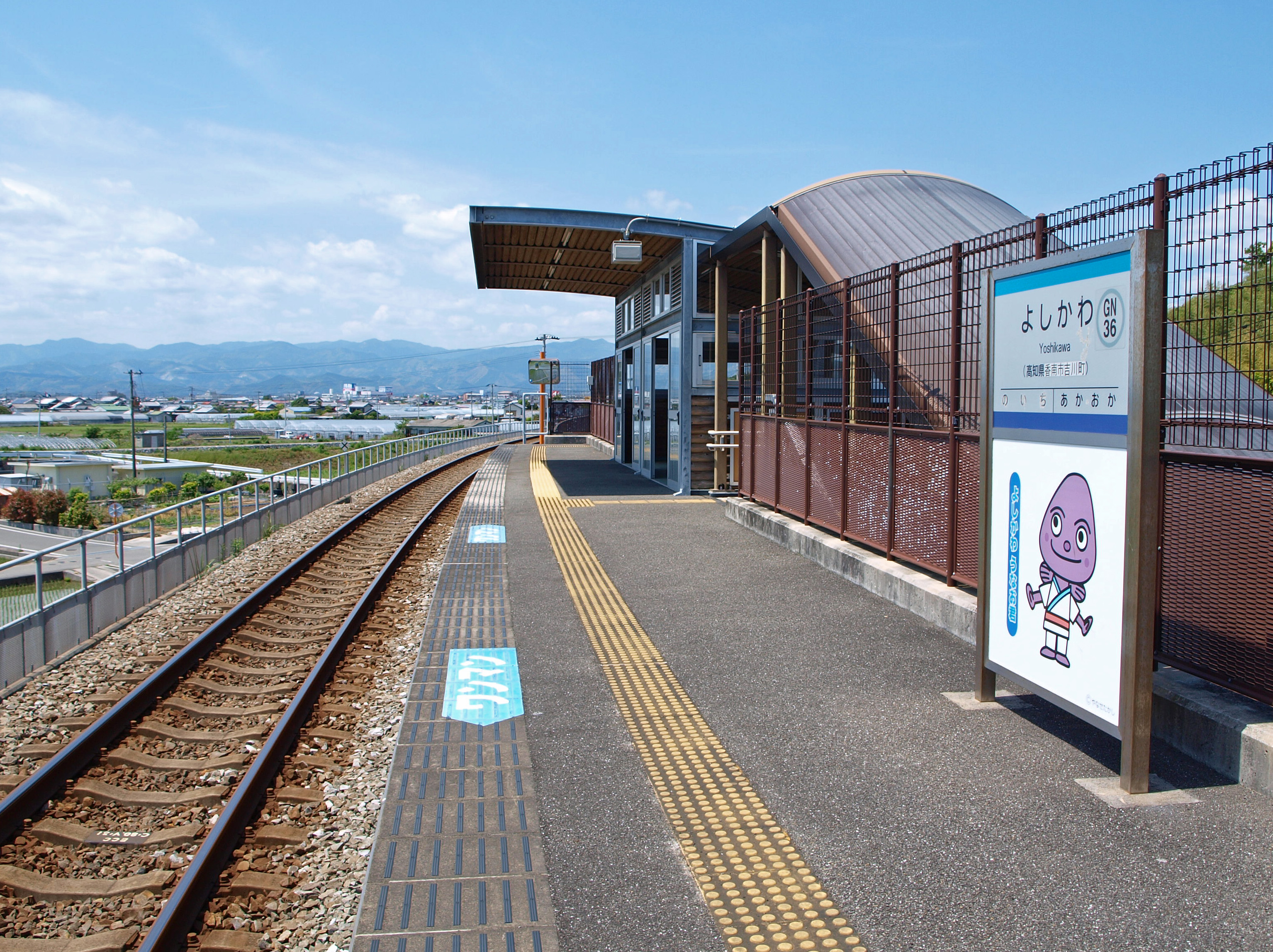 Yoshikawa Station, Gomen-Nahari Line（Asa Line), Tosa Kuroshio Railway, Japan